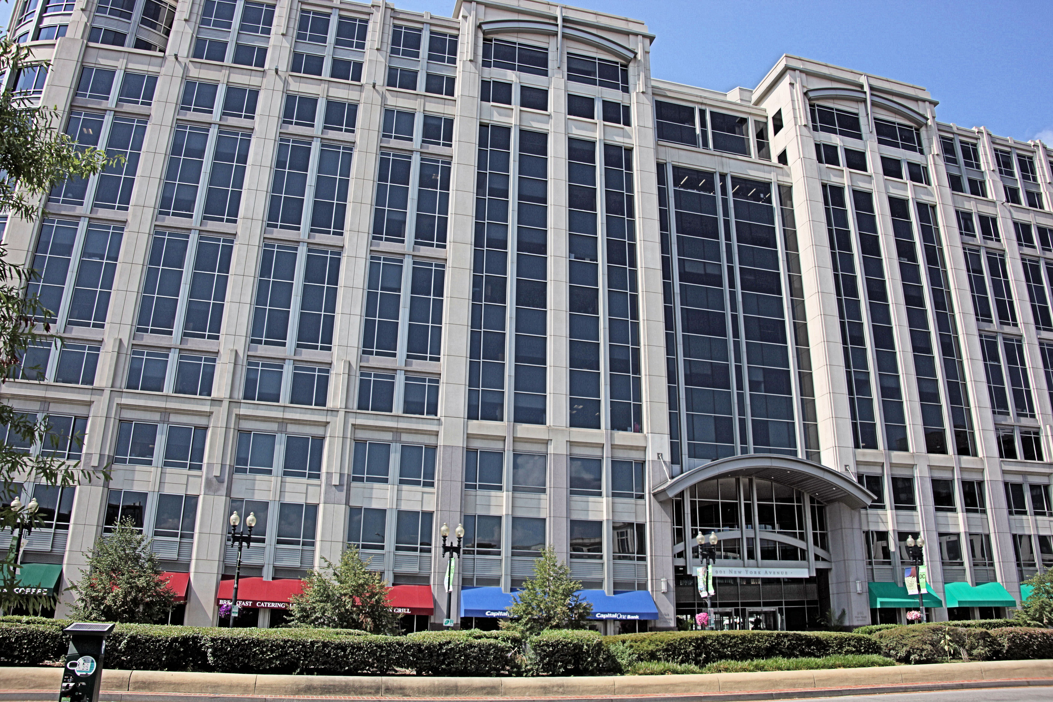 View of the south (main) side of 901 New York Avenue NW in Washington, D.C. The $54 million, 11-story, 530,000-square foot office building is owned by Boston Properties, and constructed by Clark Construction Co. in 2005. The architect was Davis Carter Scott of McLean, Virginia. The facade is polished granite and two-toned precast concrete, and the building inclues a three-story atrium lobby, four levels of underground parking, a rooftop deck, and a six-story monumental stair on the top floors.